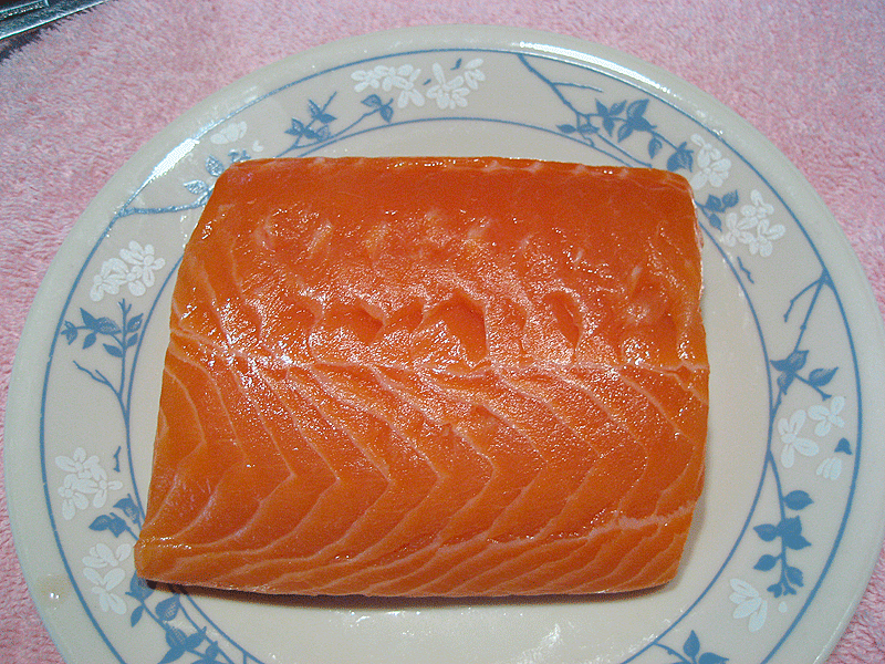 Flesh of an Atlantic Salmon.